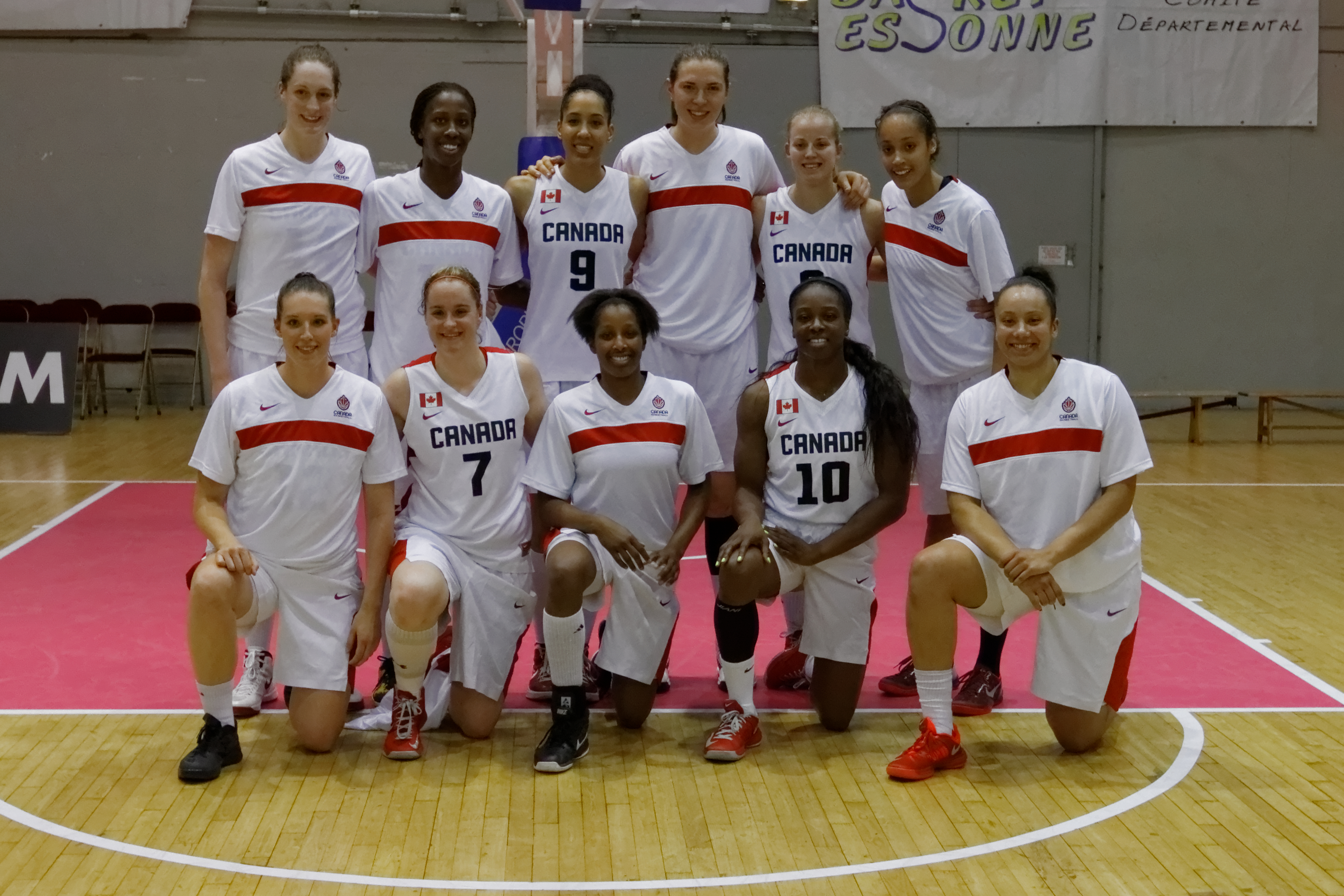 EuroEssonne, France - Canada, 7 June 2013.